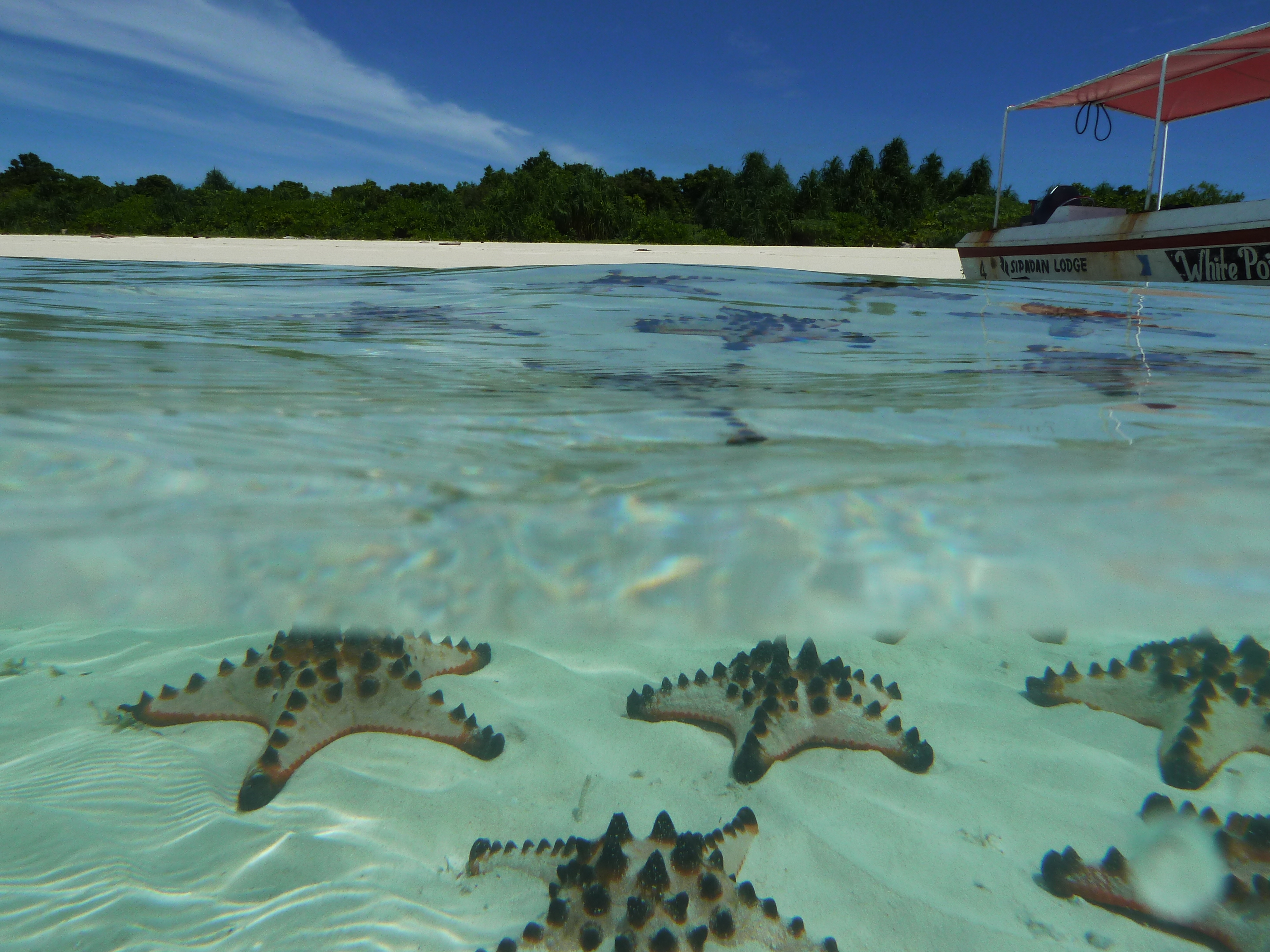 Starfish in lagoon on Pom Pom Island, Celebes resort, Sabah